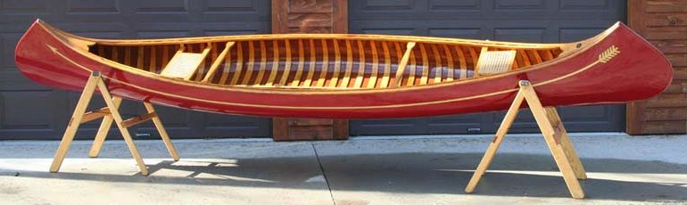 1927 Kennebec Katahdin model, restored by David McDaniel